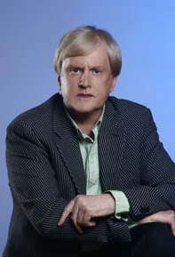 Renowned South African theatre impresario, Pieter Toerien.